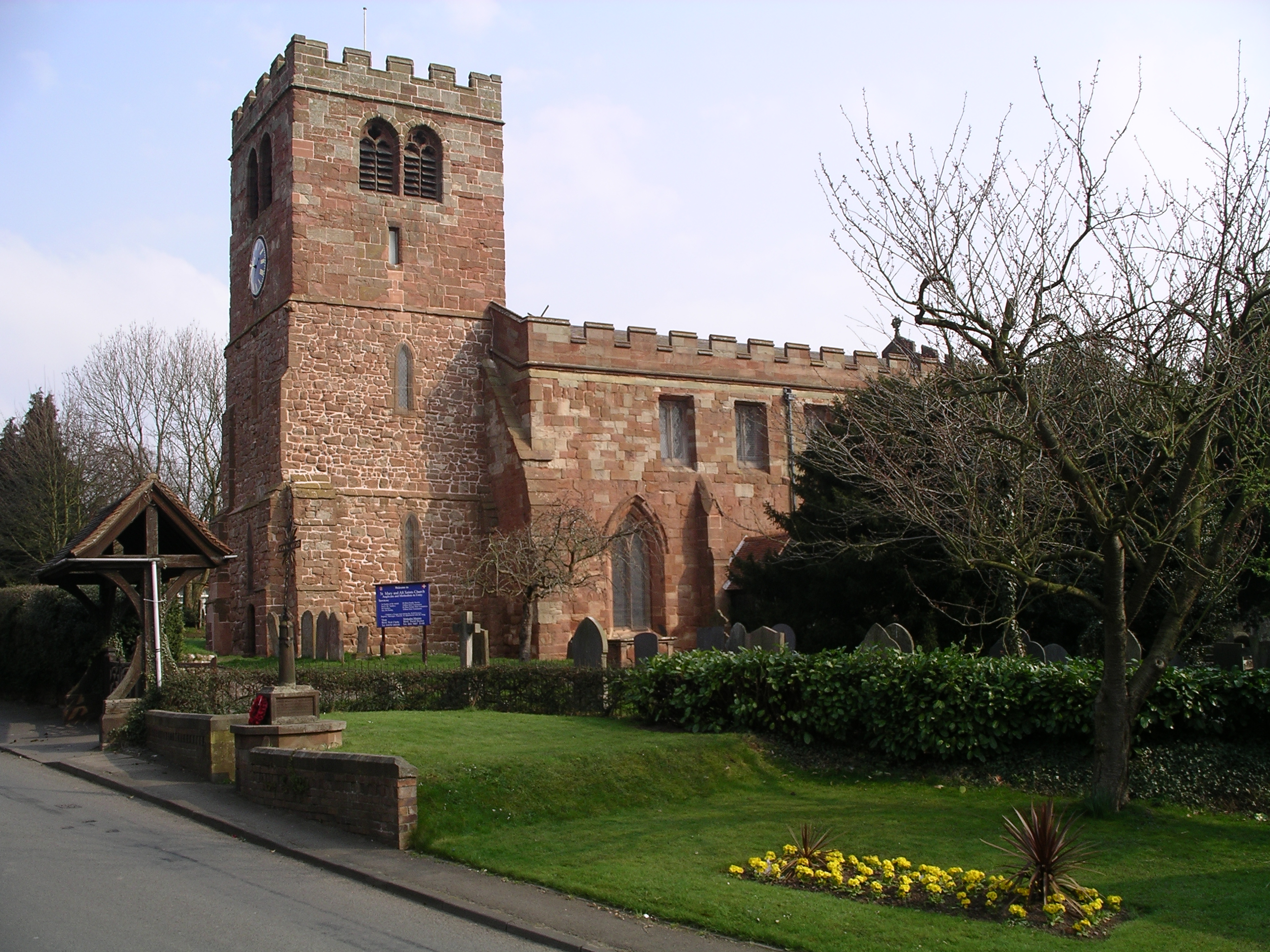 St Mary's and All Saints Church in Fillongley, Warwickshire, England on 1 April 2007.